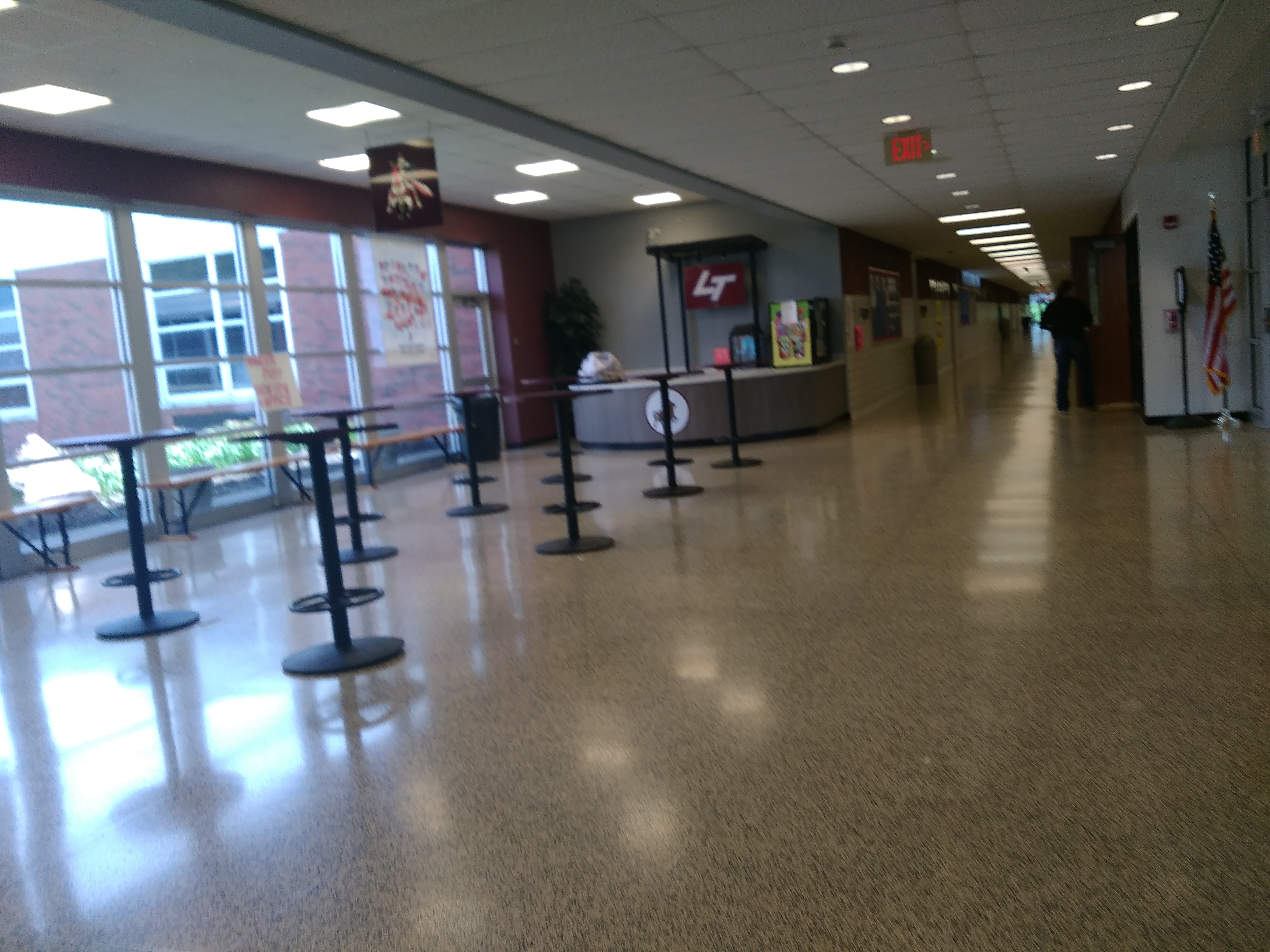 Lobby and snack area at Loyalsock Township High School in Loyalsock, Pennsylvania.